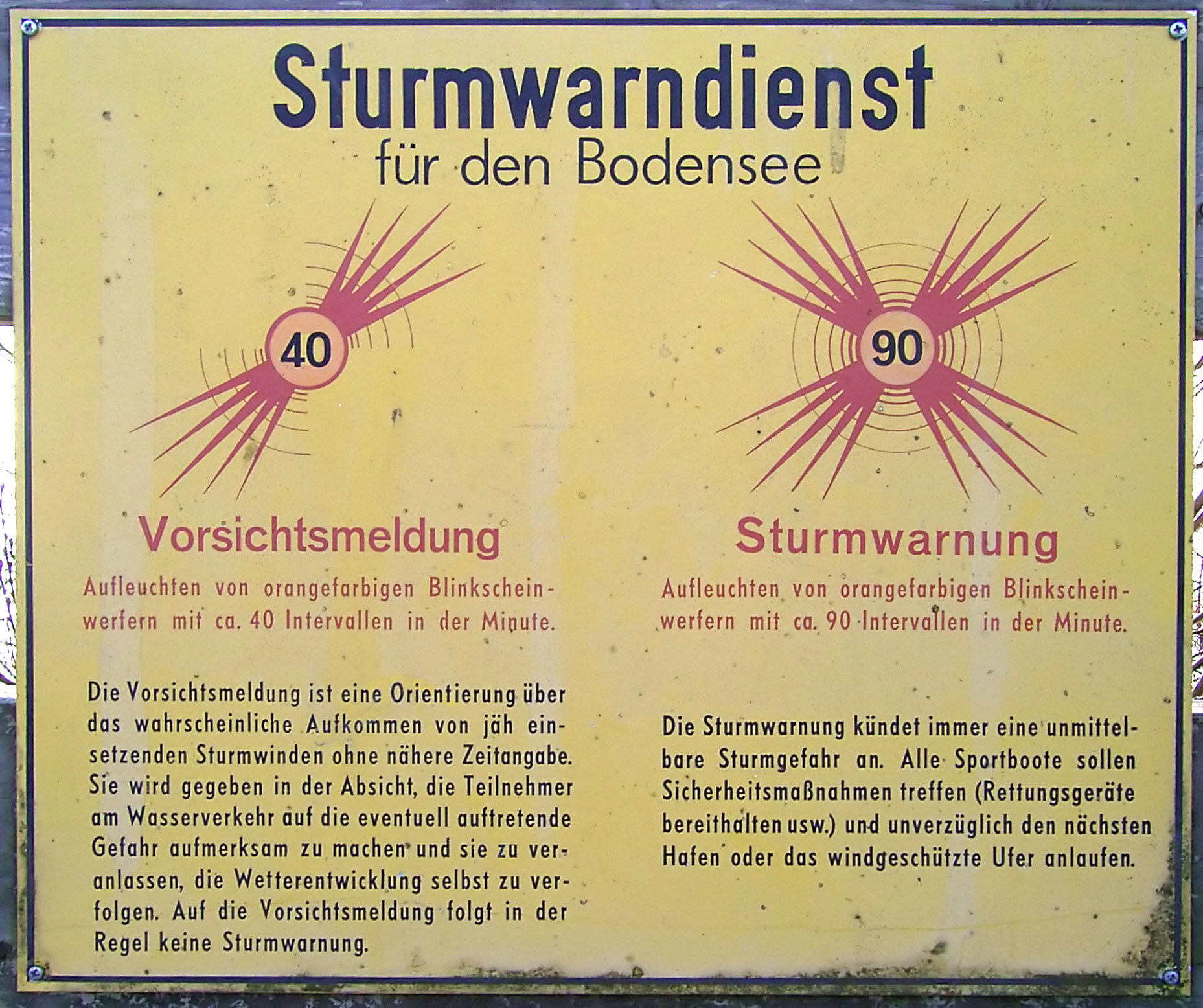 A sign which describes the signals, which warn the sailors of a storm